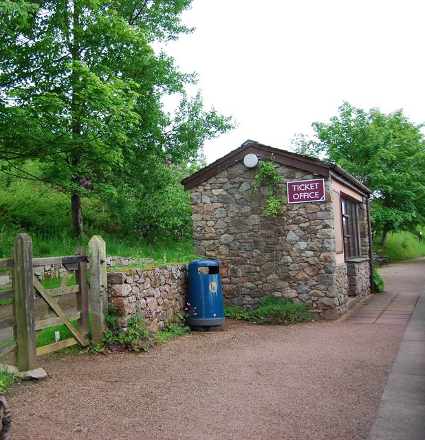 Ticket Office, Muncaster Mill Station